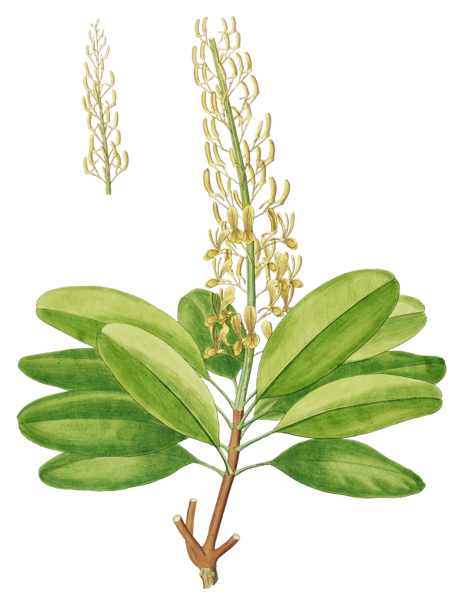 Plate from book